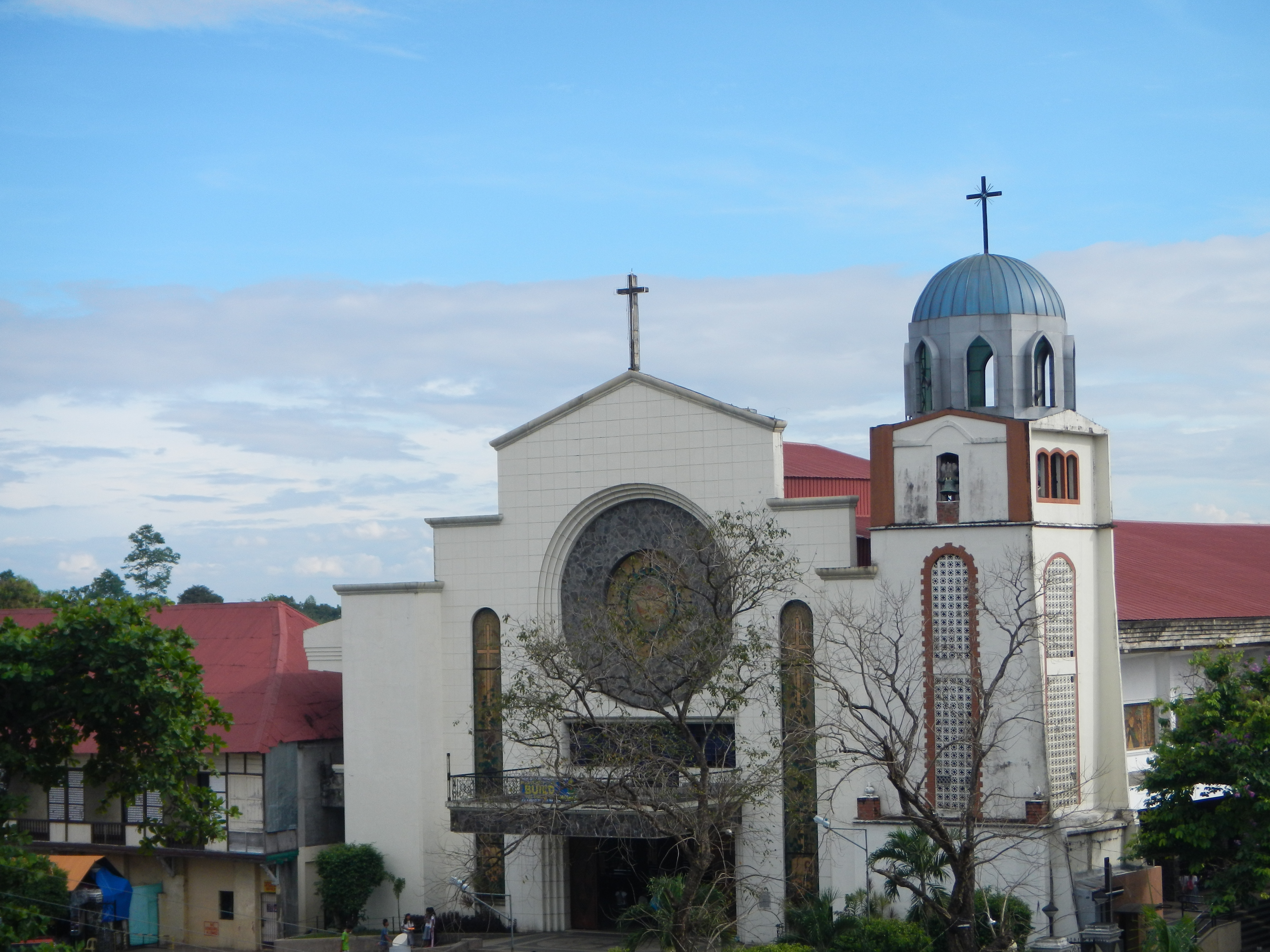 1609 -St. Ildephonse Parish Church, Vicariate IV: Queen of Peace Malasiqui, Pangasinan[1][2] Roman Catholic Archdiocese of Lingayen-Dagupan[3][4] Vicariate of St. Ildephonse 2421 Pangasinan Tel. 536-4862 Population: 92,053; Catholics: 84,559 Titular: St. Ildephonse of Seville, Jan. 23 Parish Priest: Rev. Enrique V. Macaraeg Parochial Vicars: Rev. Manuel S. Bravo, Jr., Rev. Edilberto A. Calderon